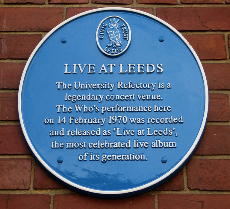 Blue Civic Plaque at Leeds' University Refectory